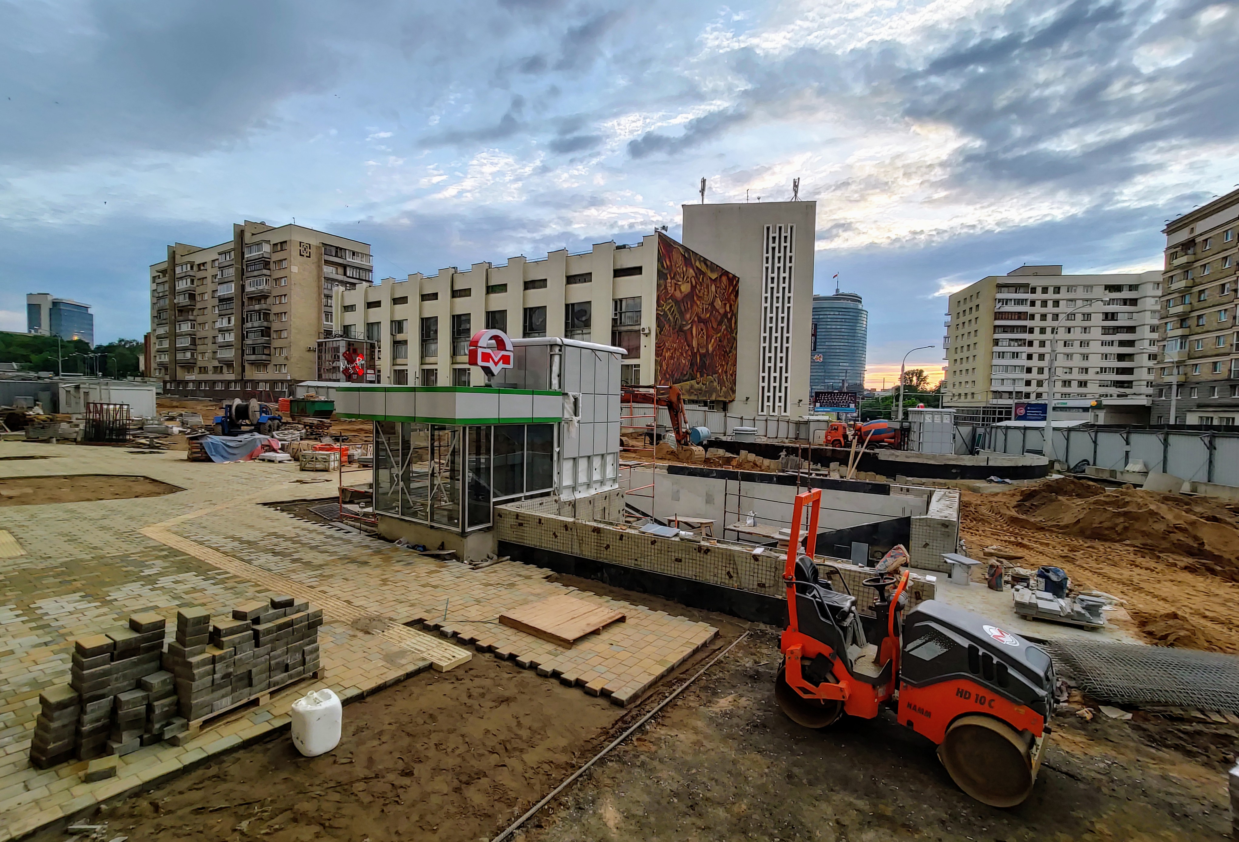 Jubiliejnaja plošča